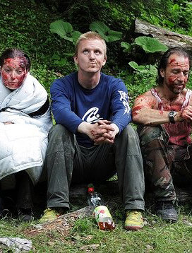 Matthias Olof Eich on the Set of Break